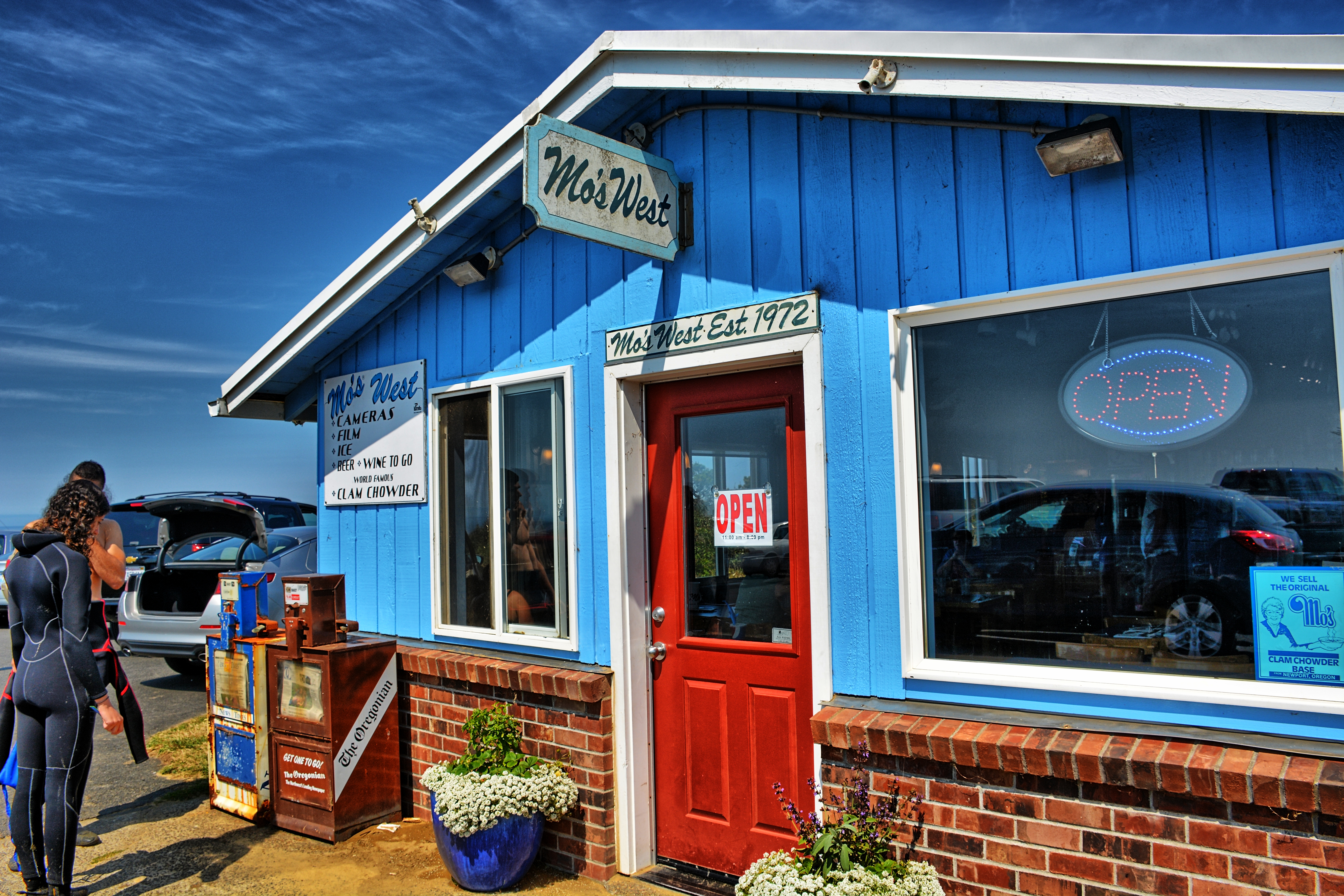 What can you say...If you are in the area and can get through the crowds, Mo's has the best Clam Chowder ever! Crazy surfers standing outside to get an order of Clam Chowder.